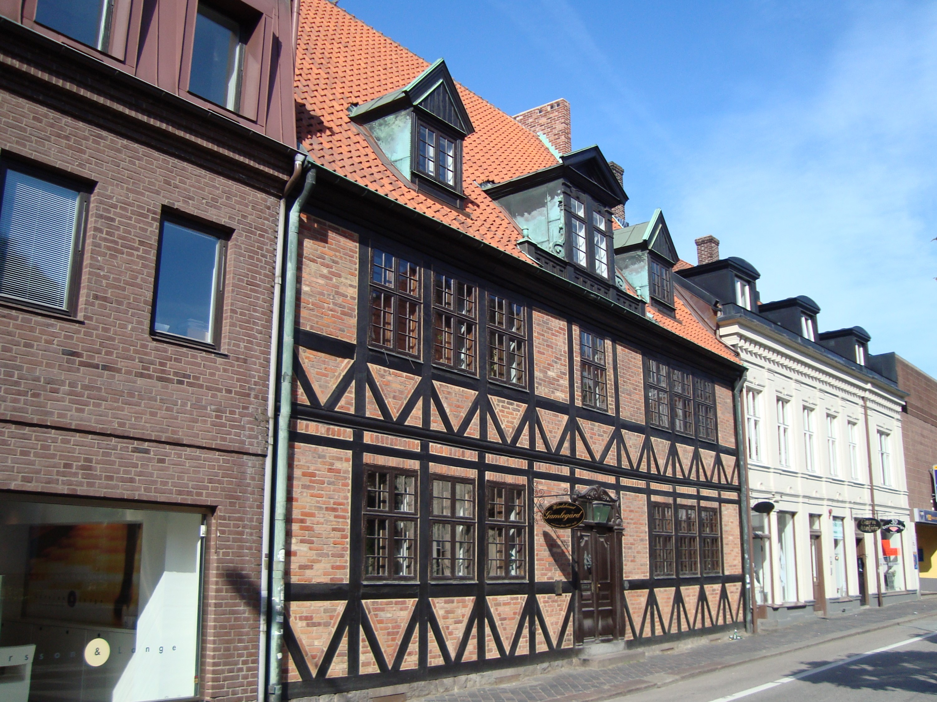 Gamlegård in Helsingborg.